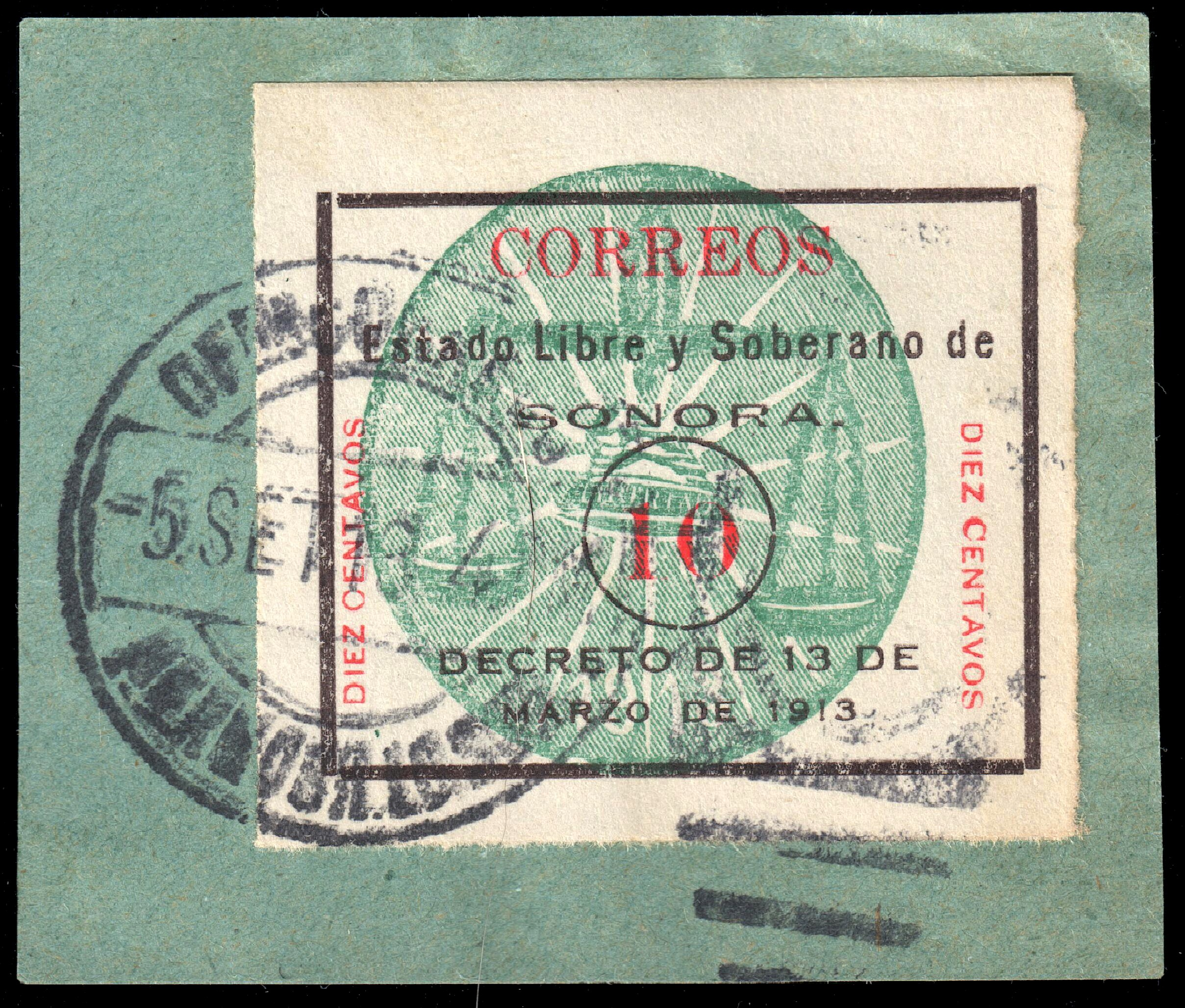 Mexico 1913 civil war issue, Sonora. 10c Scott #339 unused. Narrow Roman numeral, without embossing, with green seal. Colorless roulette.